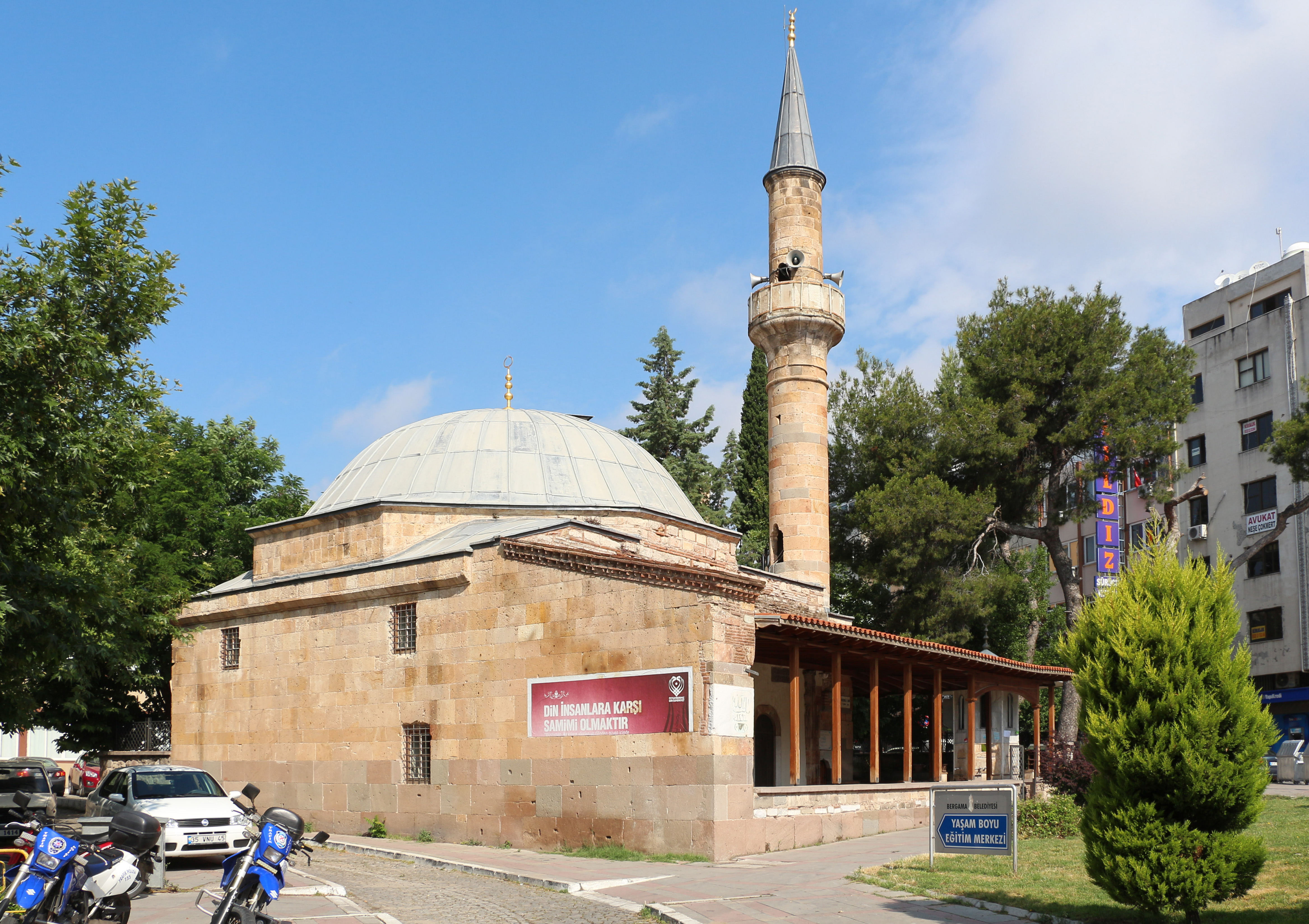 Kursunlu Mosque, Bergama, Turkey